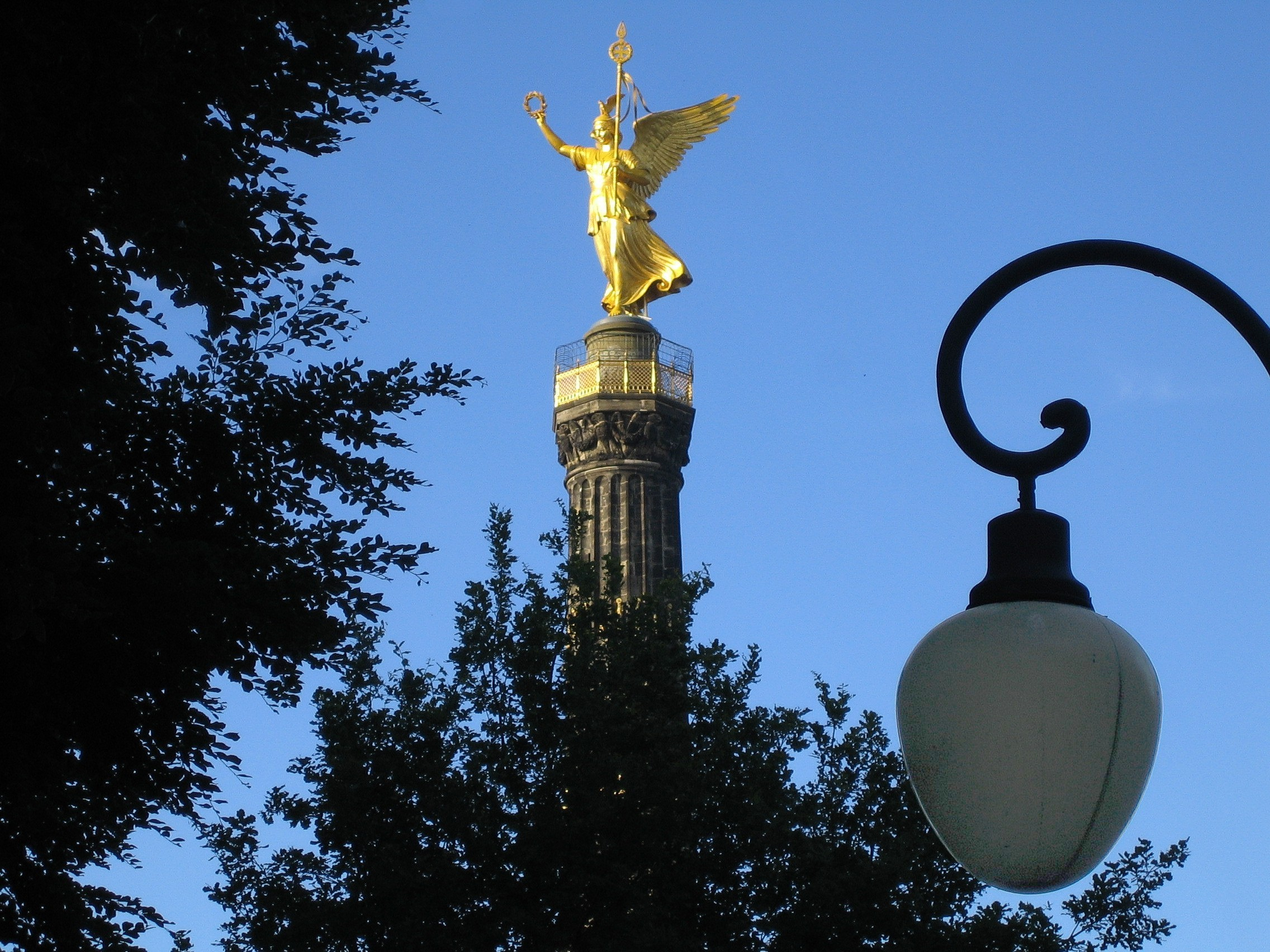 The Berlin victory column ("Siegessäule")